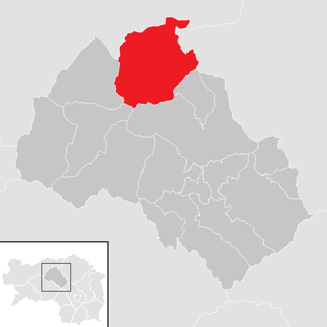 District Leoben